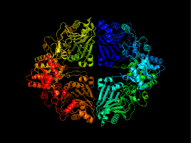 Structure of the ATase tetramer, generated from 1ECB